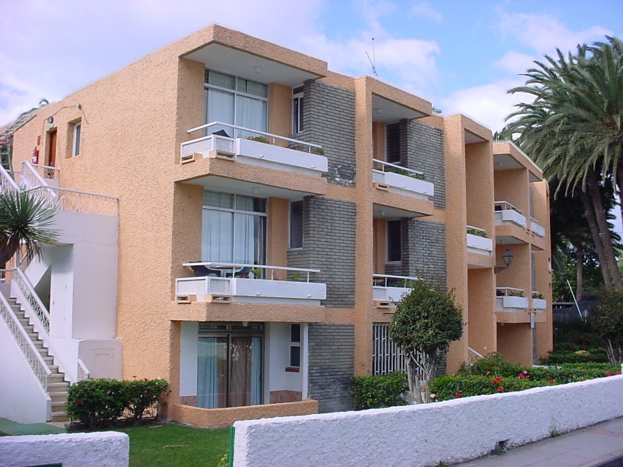 Oasis Maspalomas Foresta in Maspalomas, Gran Canaria, Spain